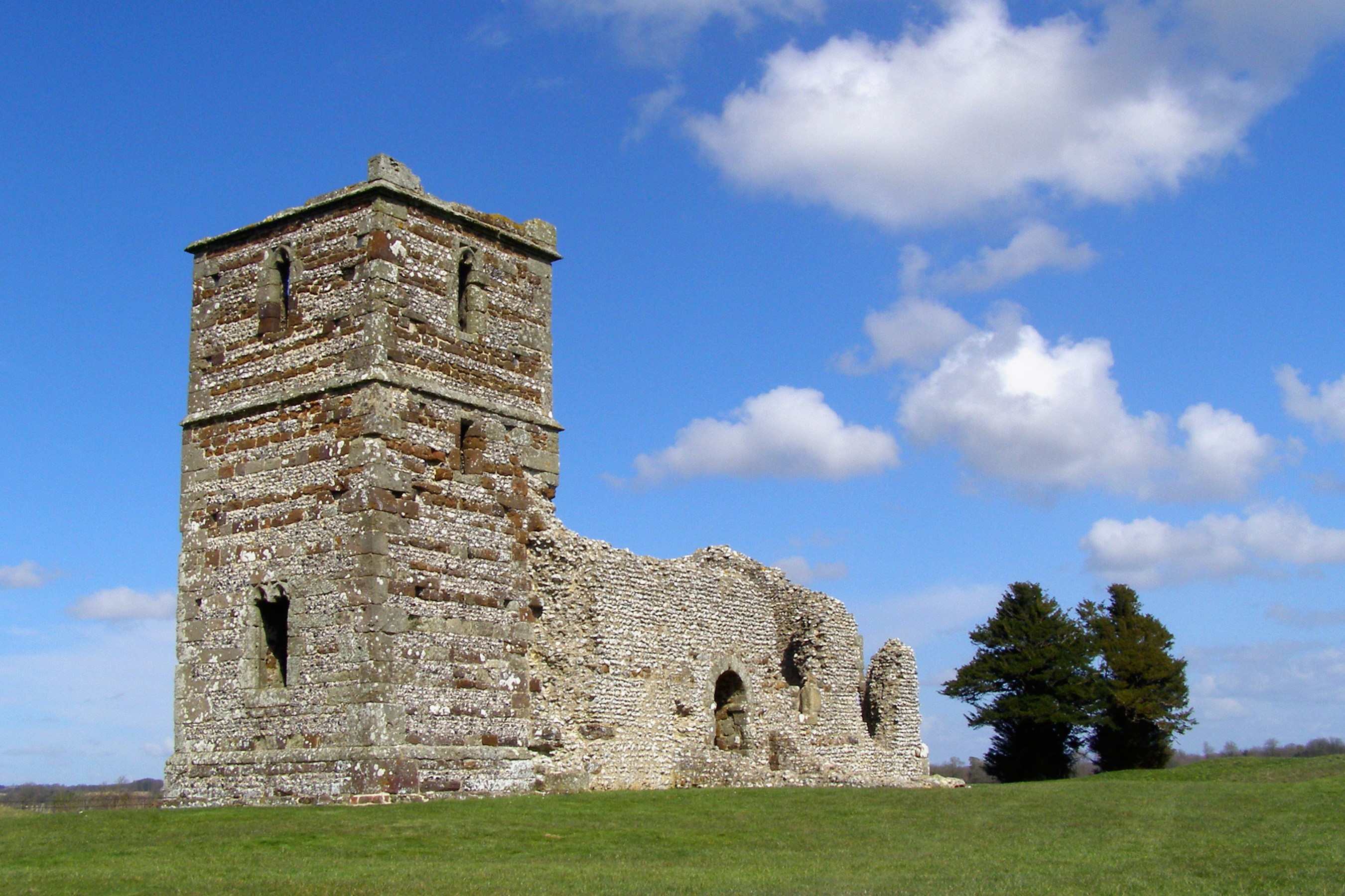 Ruined parish church at Knowlton, Dorset, seen from the southwest